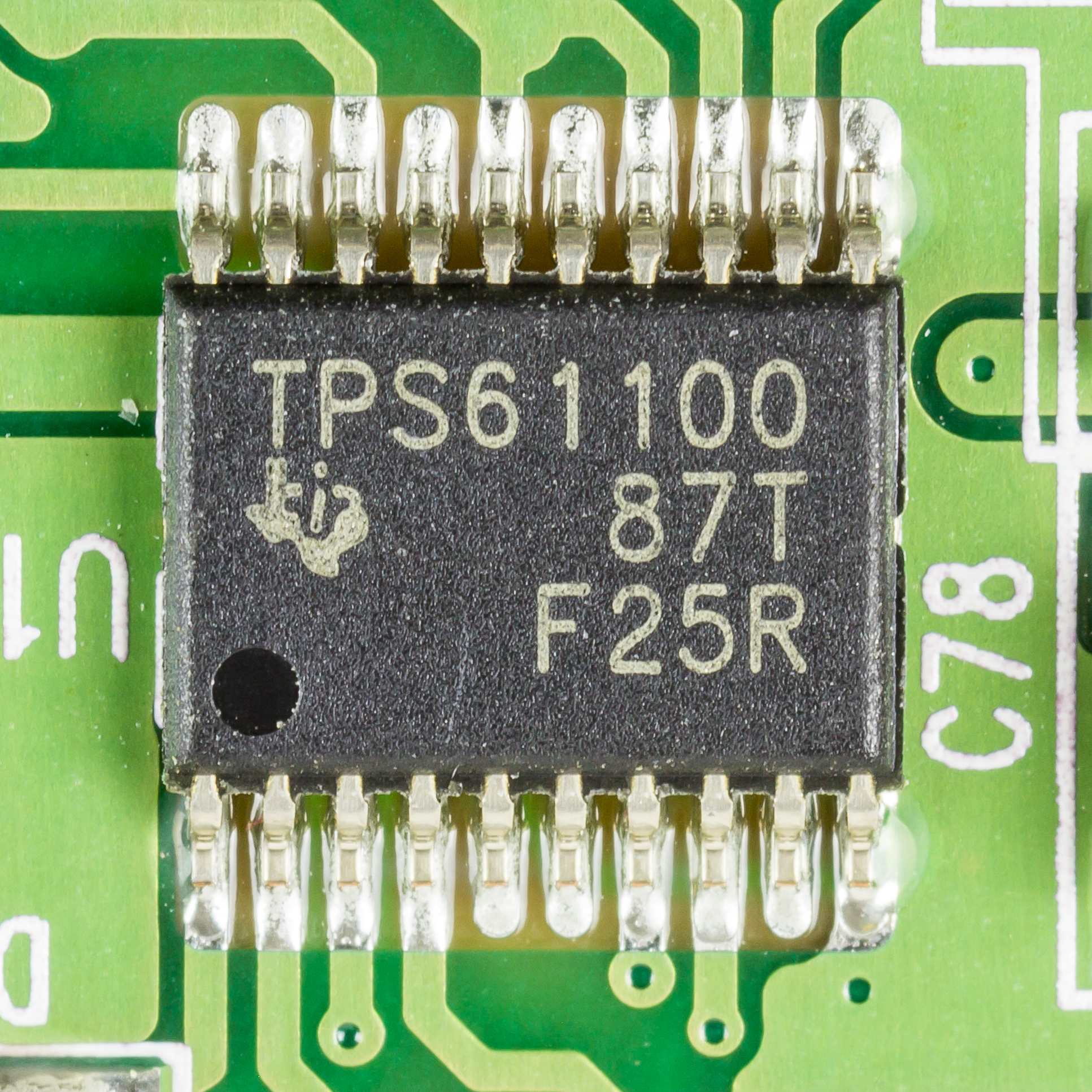 Tevion MD 85925 - Texas Instruments TPS61100 - Dual-Output, Single-Cell Boost Converter. Package: TSSOP